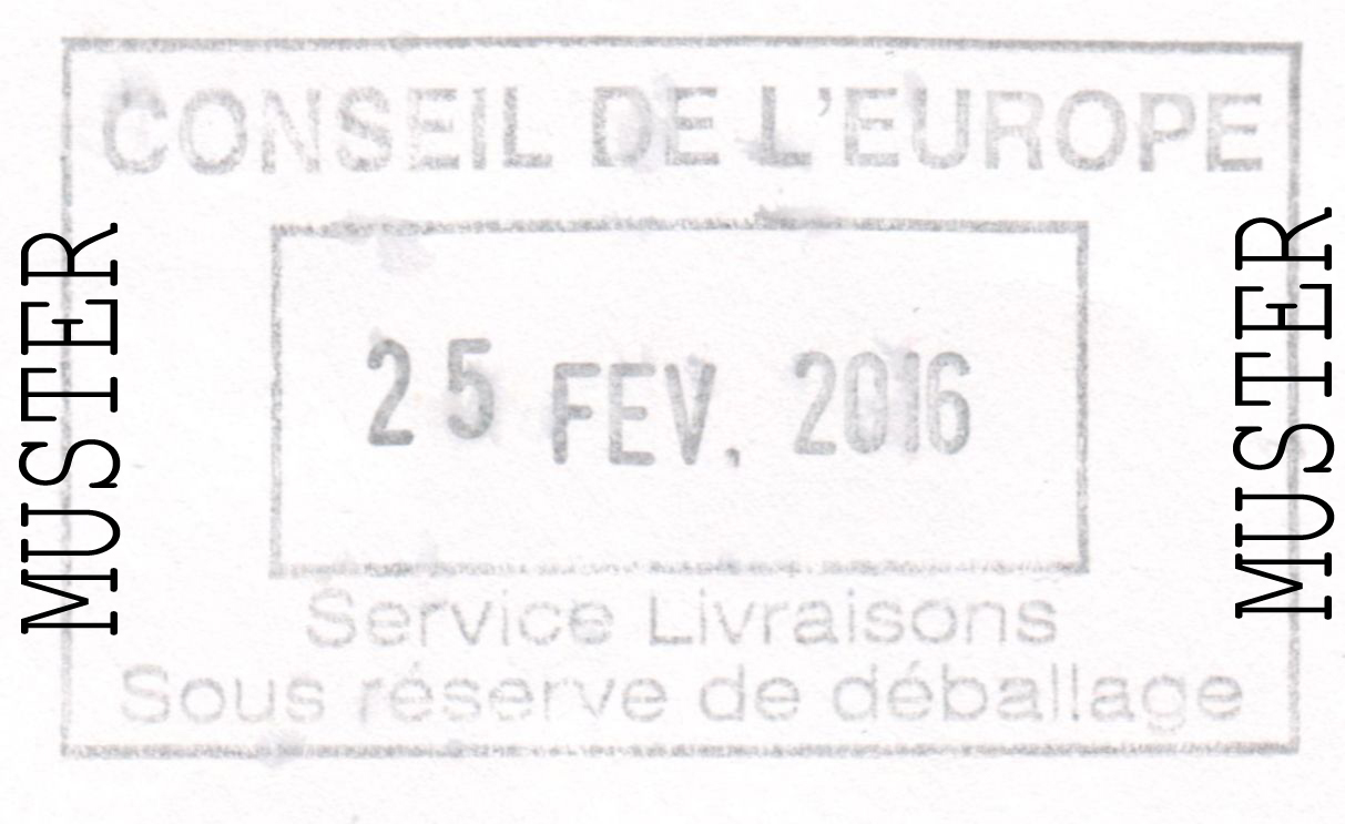 Stamp of the Registry of the Council of Europe / European Court of Human Rights in Strasbourg from the 25 February 2016.